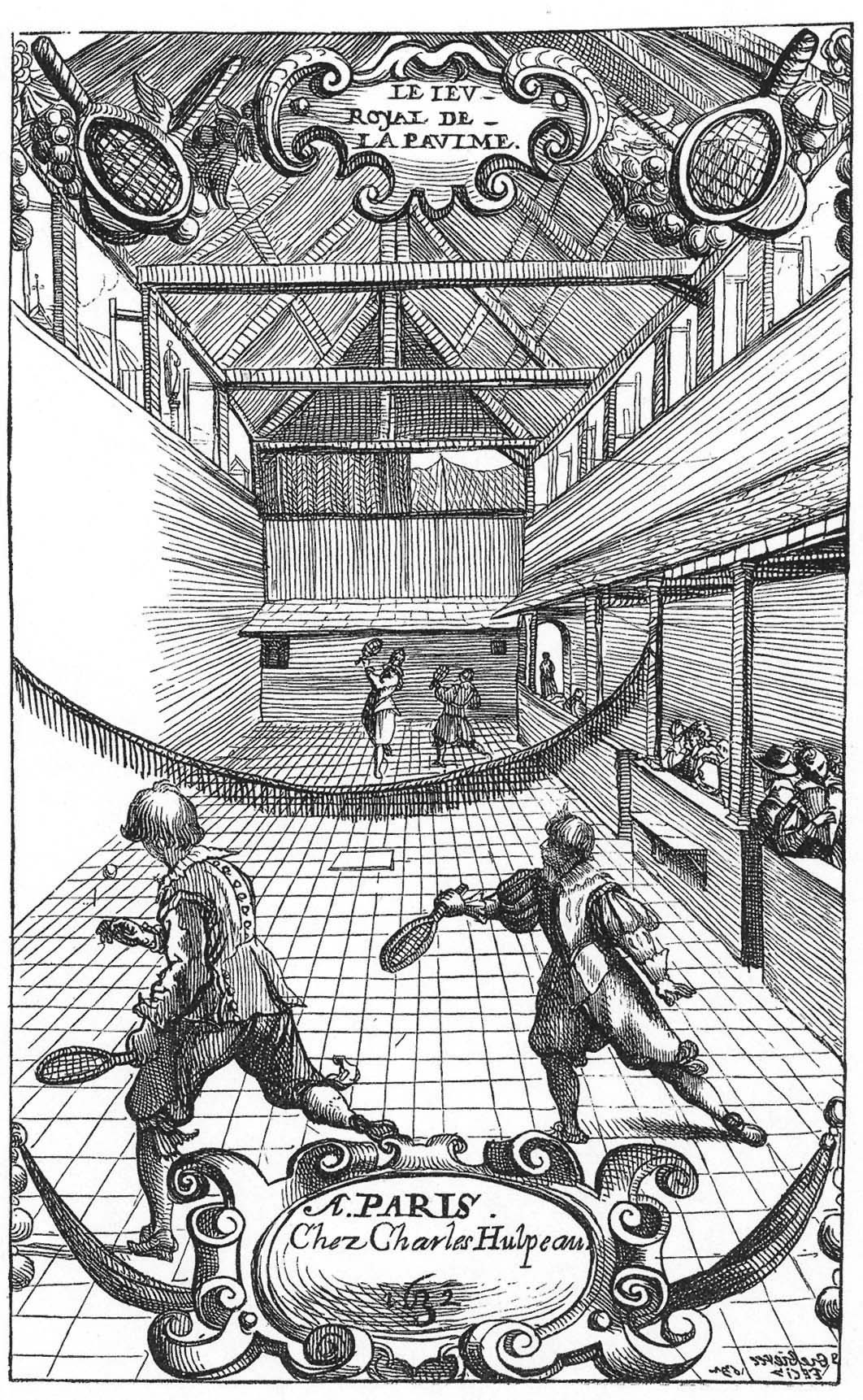 Copper engraving of a French Jeu de Paume during the 17th century. The painting was inadvertently mirror-inverted by the printer as the penthouse is (wrongly) on the right side and moreover "Hulpeau fecit 1632" written in mirror in the right bottom corner.